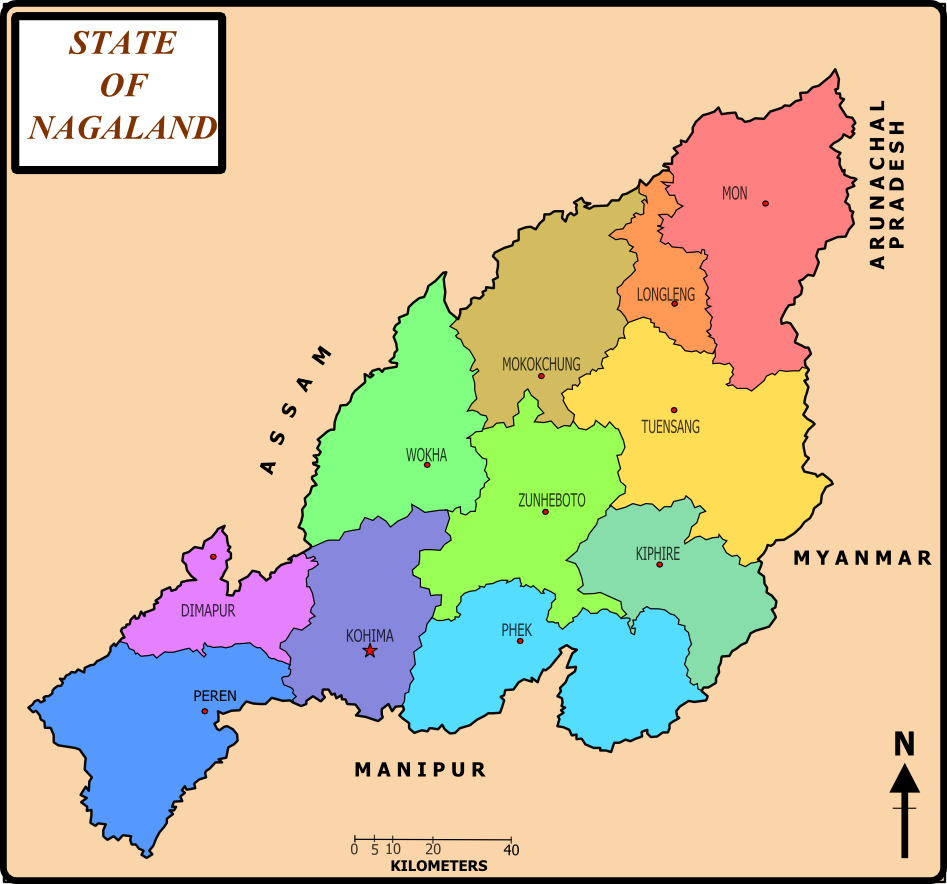 State of Nagaland, India with districts and their HQ.